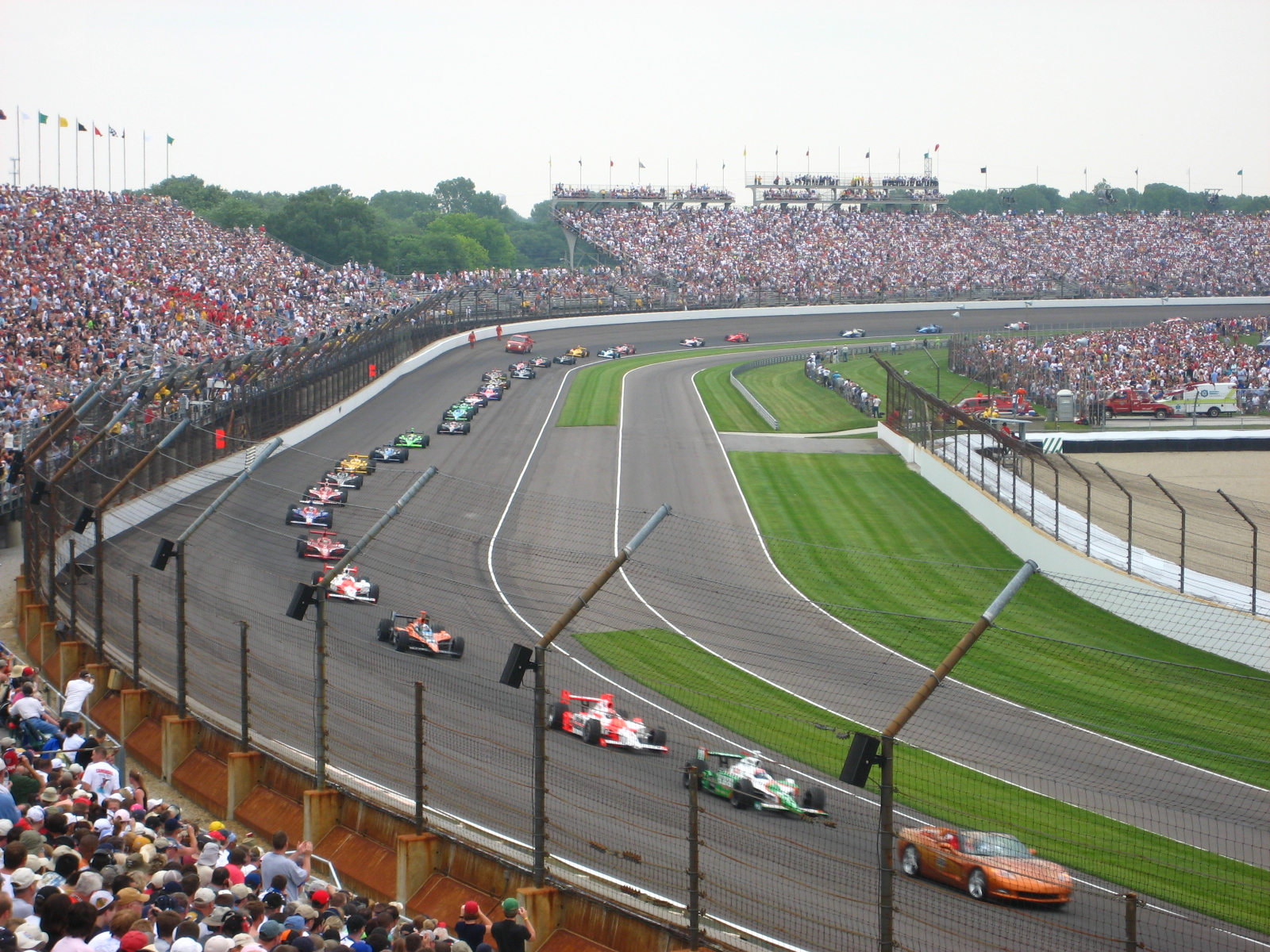 The field under caution at the 2007 Indianapolis 500